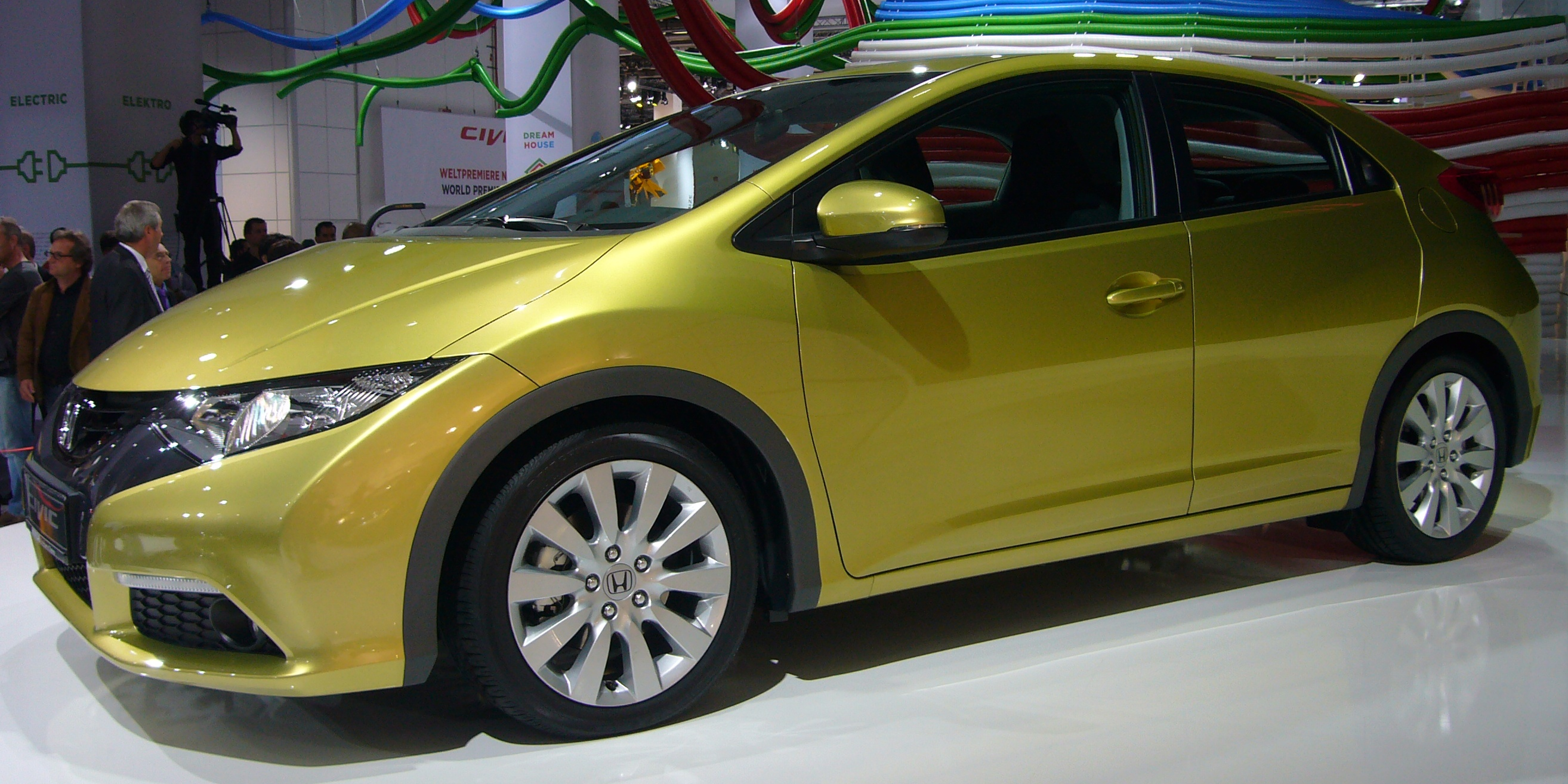 Honda Civic at IAA Frankfurt 2011